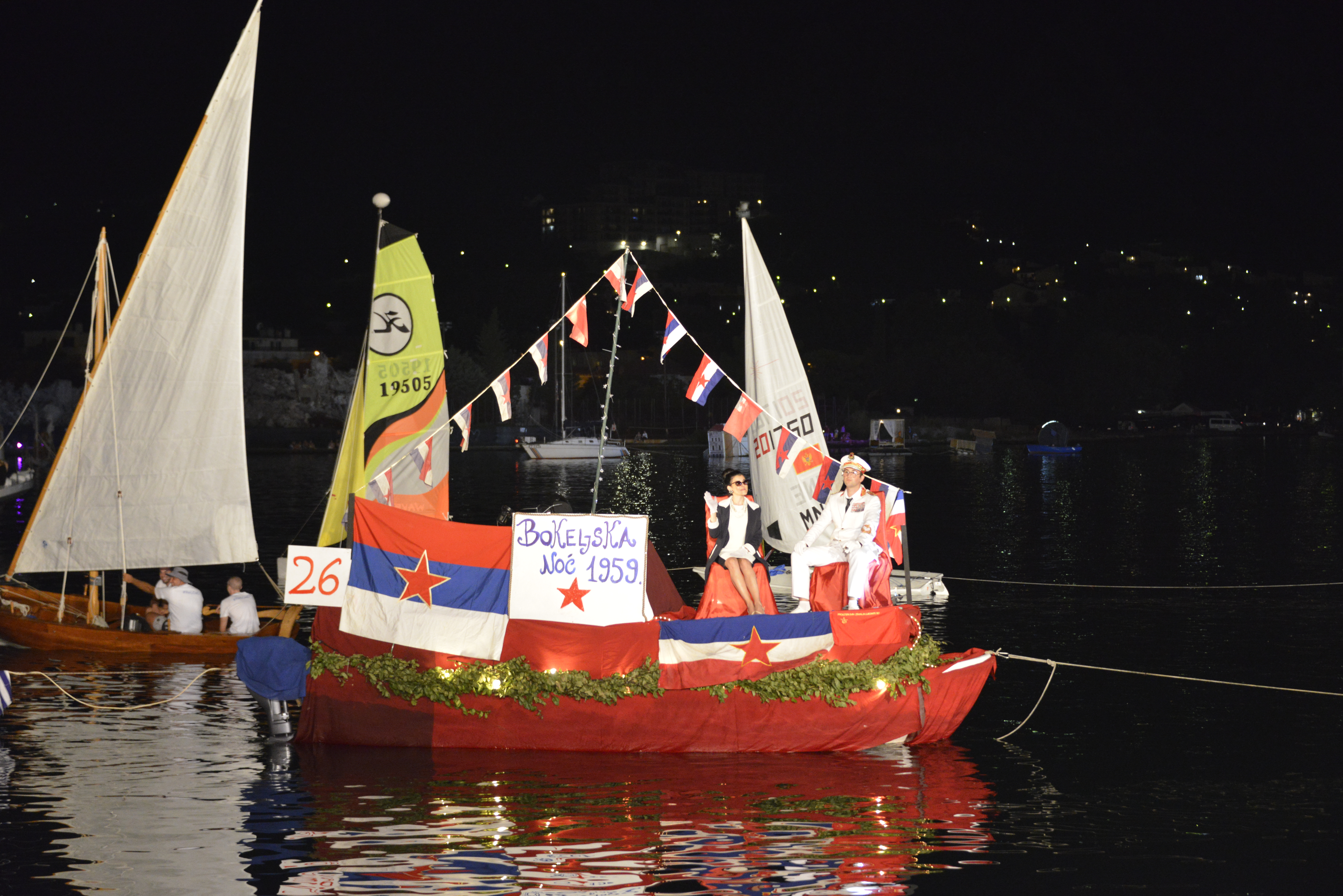 Ornate barges during Boka Night event